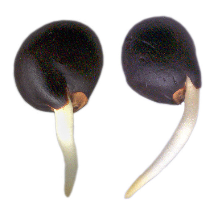 Xanthoceras germination